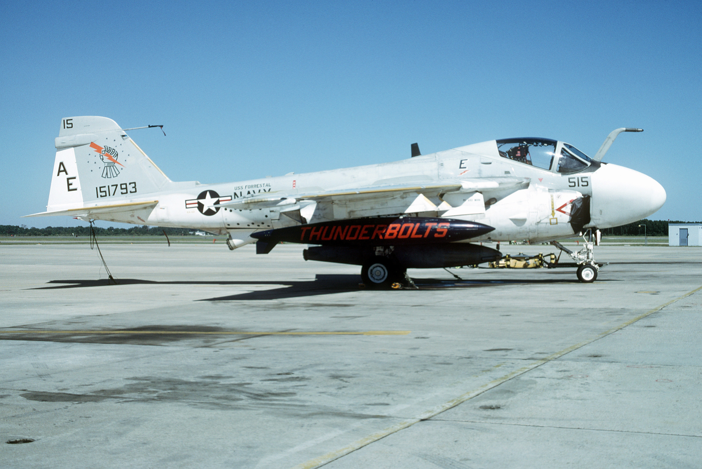 A U.S. Navy Grumman KA-6D Intruder tanker aircraft (BuNo 151793) from Attack Squadron 176 (VA-176) parked on the flight line at Naval Air Station Oceana, Virginia (USA), in 1990. VA-176 was assigned to Carrier Air Wing 6 (CVW-6) aboard the aircraft carrier USS Forrestal (CV-59).